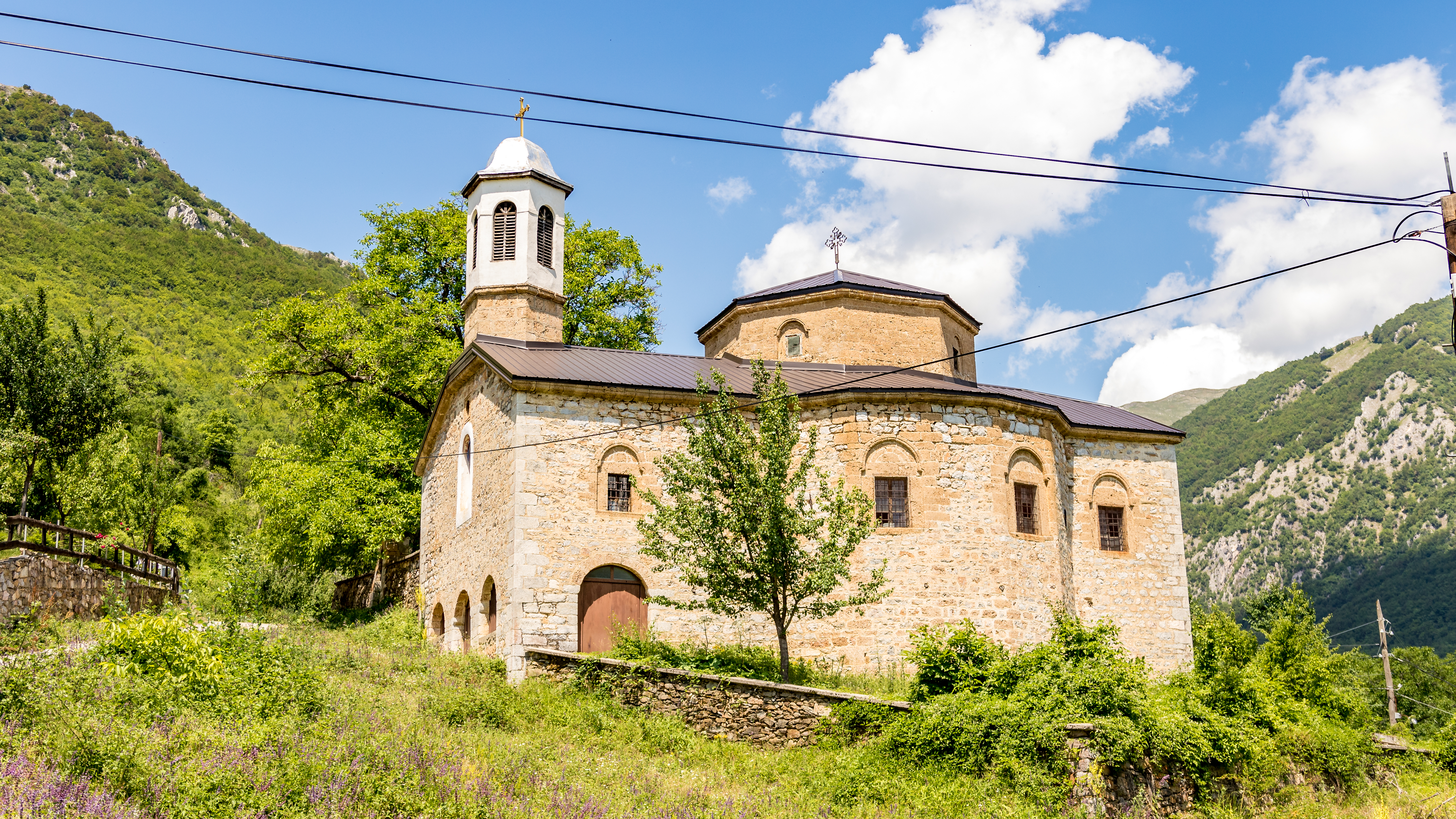 The main church in the village Selce